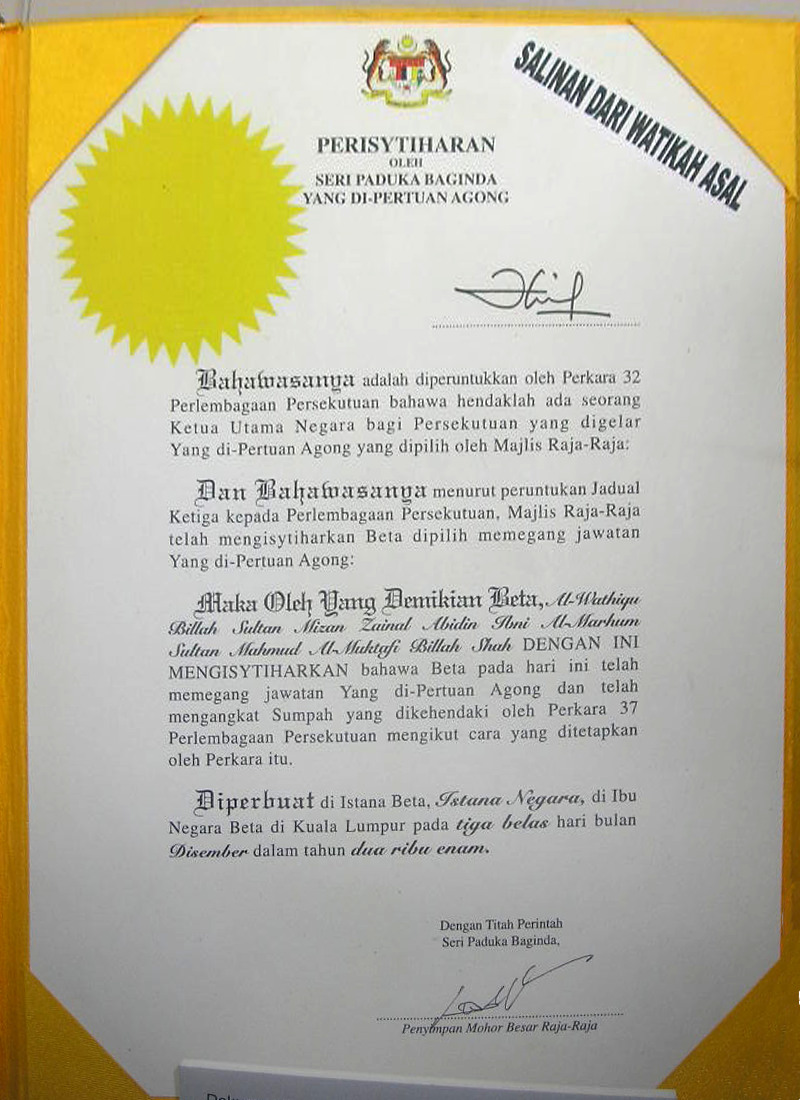 The Letter of Appointment of His Majesty, the XIII Yang di-Pertuan Agong. Courtesy of the office of the Keeper of the Rulers' Seal, Conference of the Rulers of Malaysia.